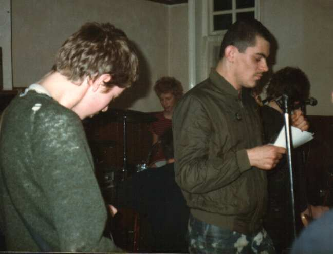 Andy Martin performing with The Apostles at the Spread Eagle, Southend on Sea, December 1981